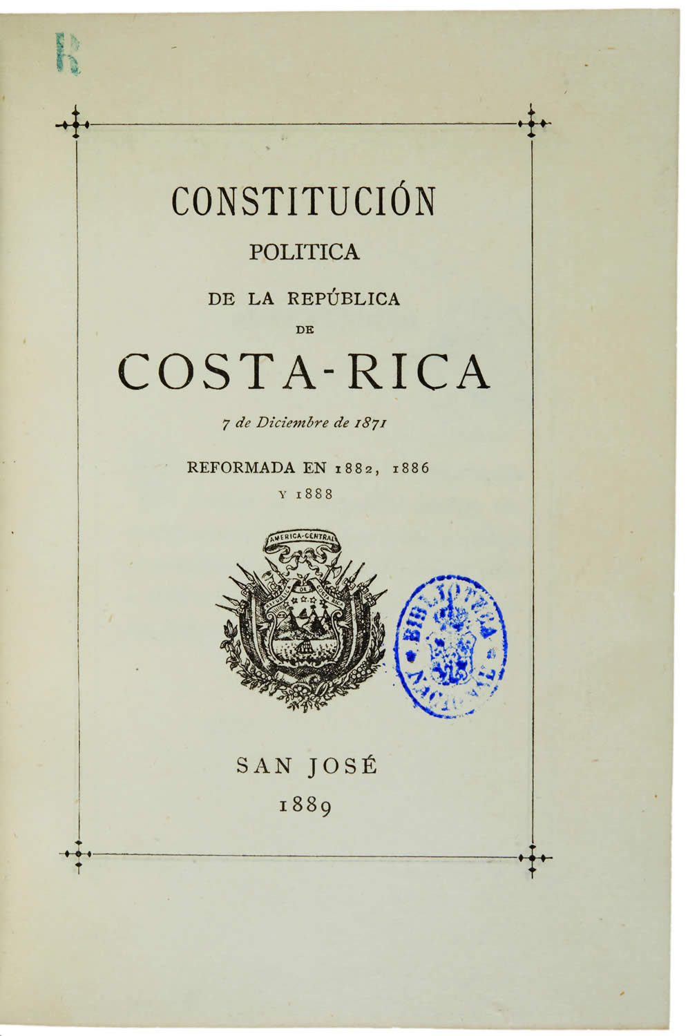 Book cover of the Constitución Política de Costa Rica de 1971